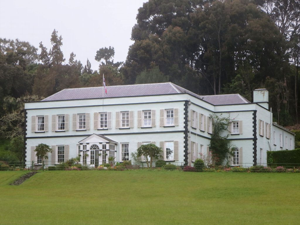 Since its construction by the East India Company in 1792, Plantation House at White Gate has been the residence of the governors of St Helena Island.